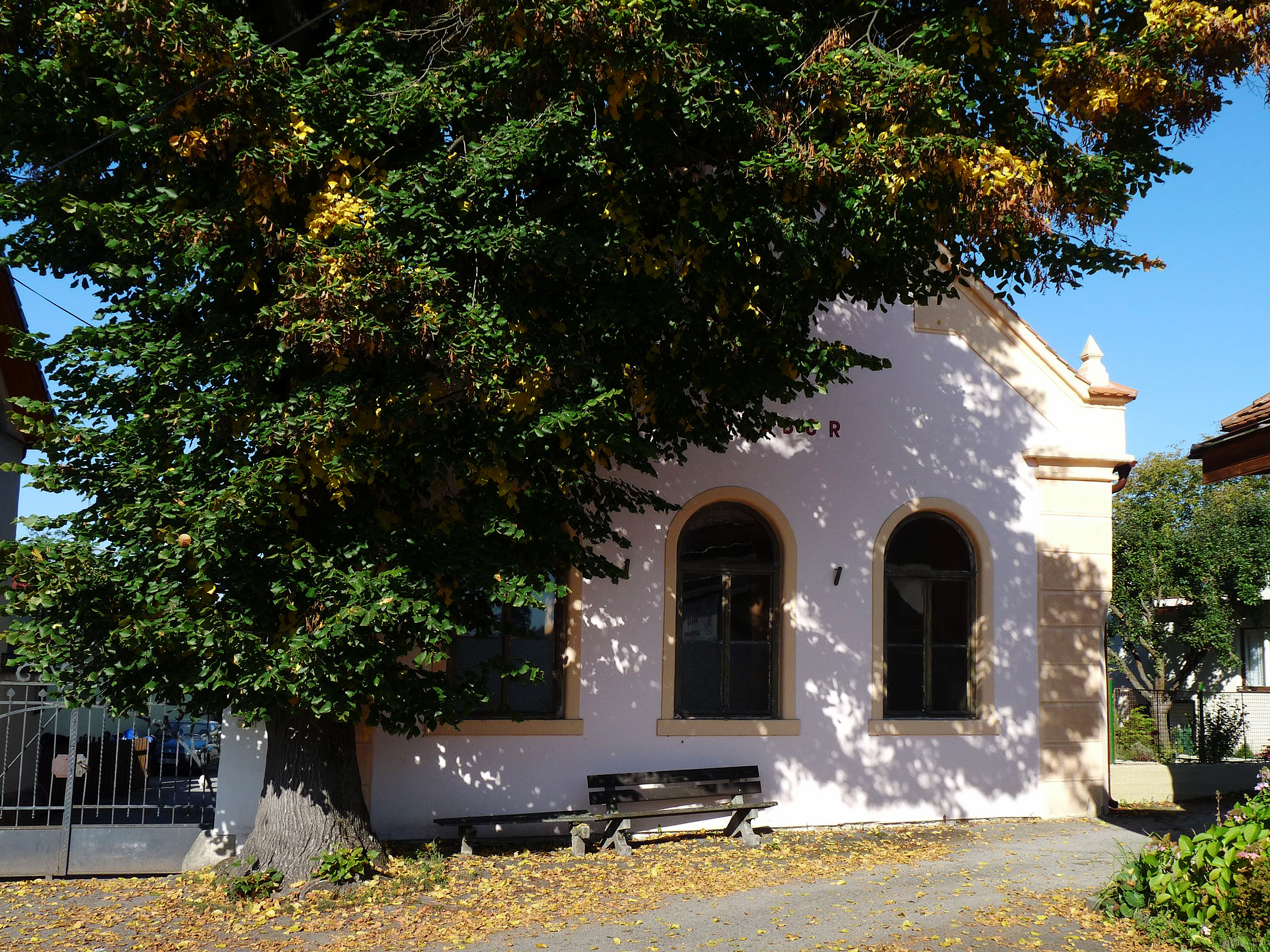 Former synagogue, nowadays a disused building of the Hussite church, in the town of Hluboká nad Vltavou in České Budějovice District.